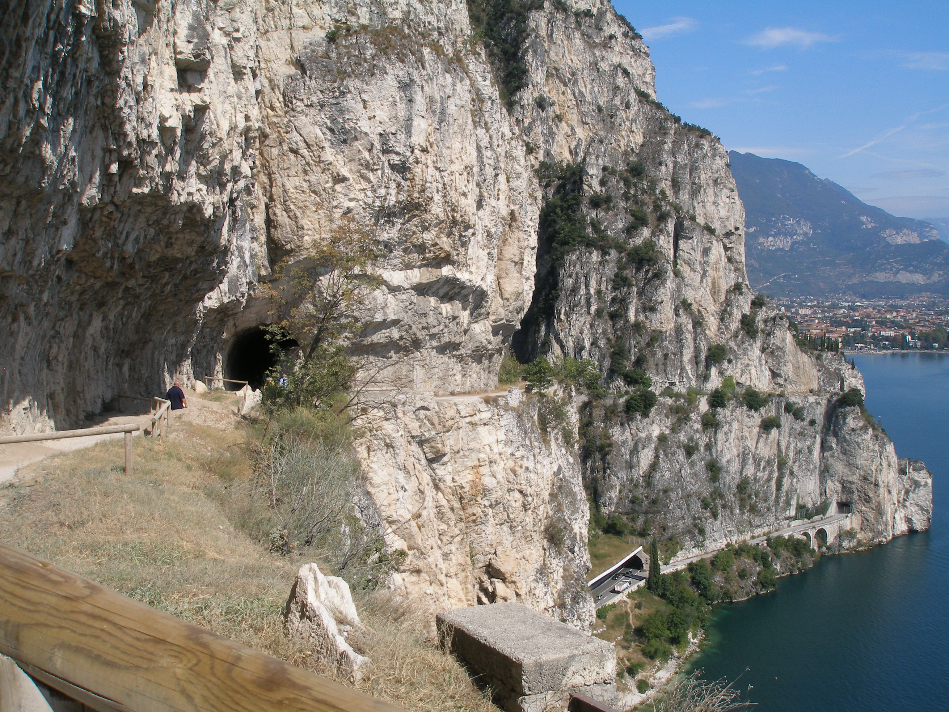 One of tunnels on the old Ponale Road